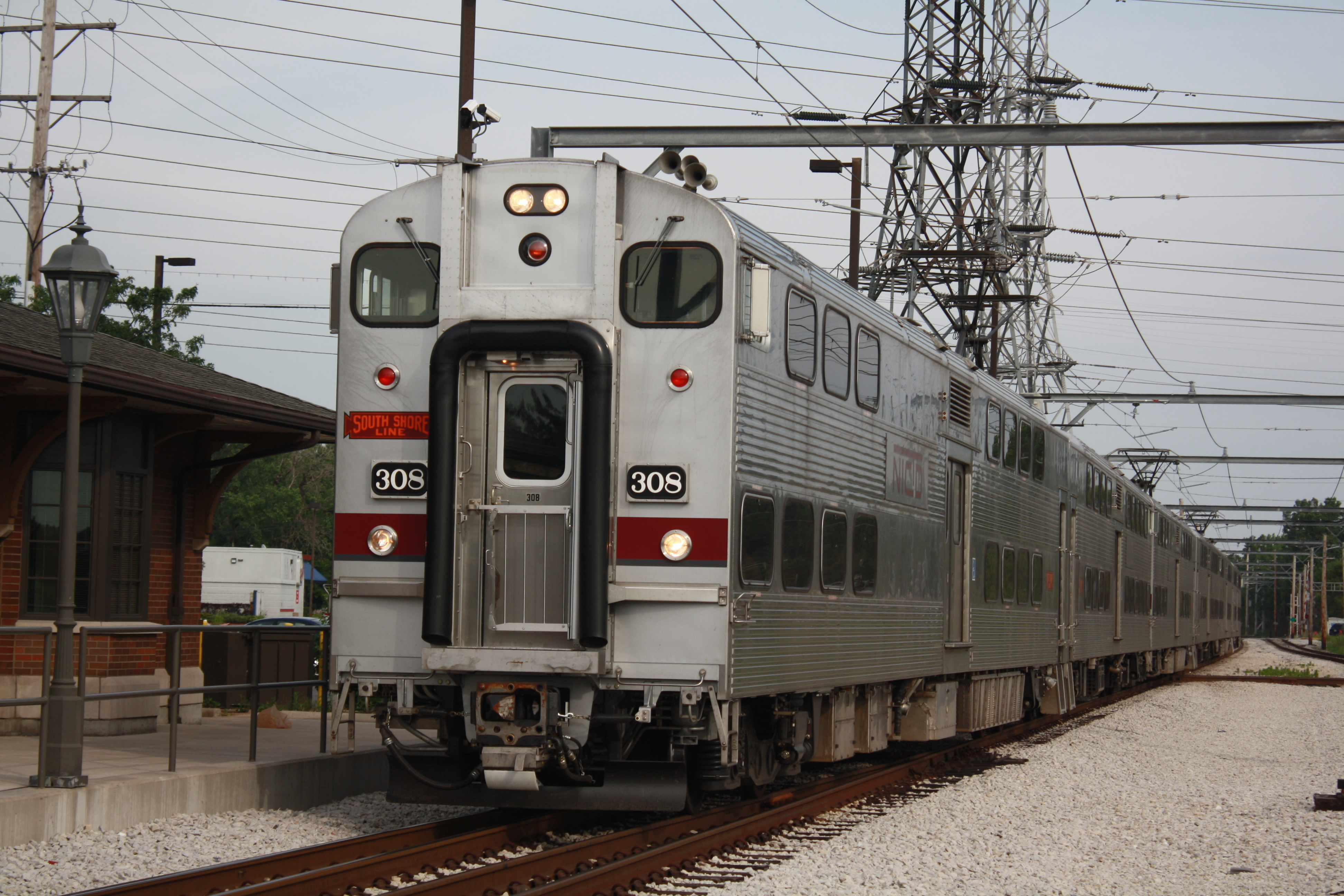 Its fun seeing these in service. I still haven't gotten a chance to ride in them yet.